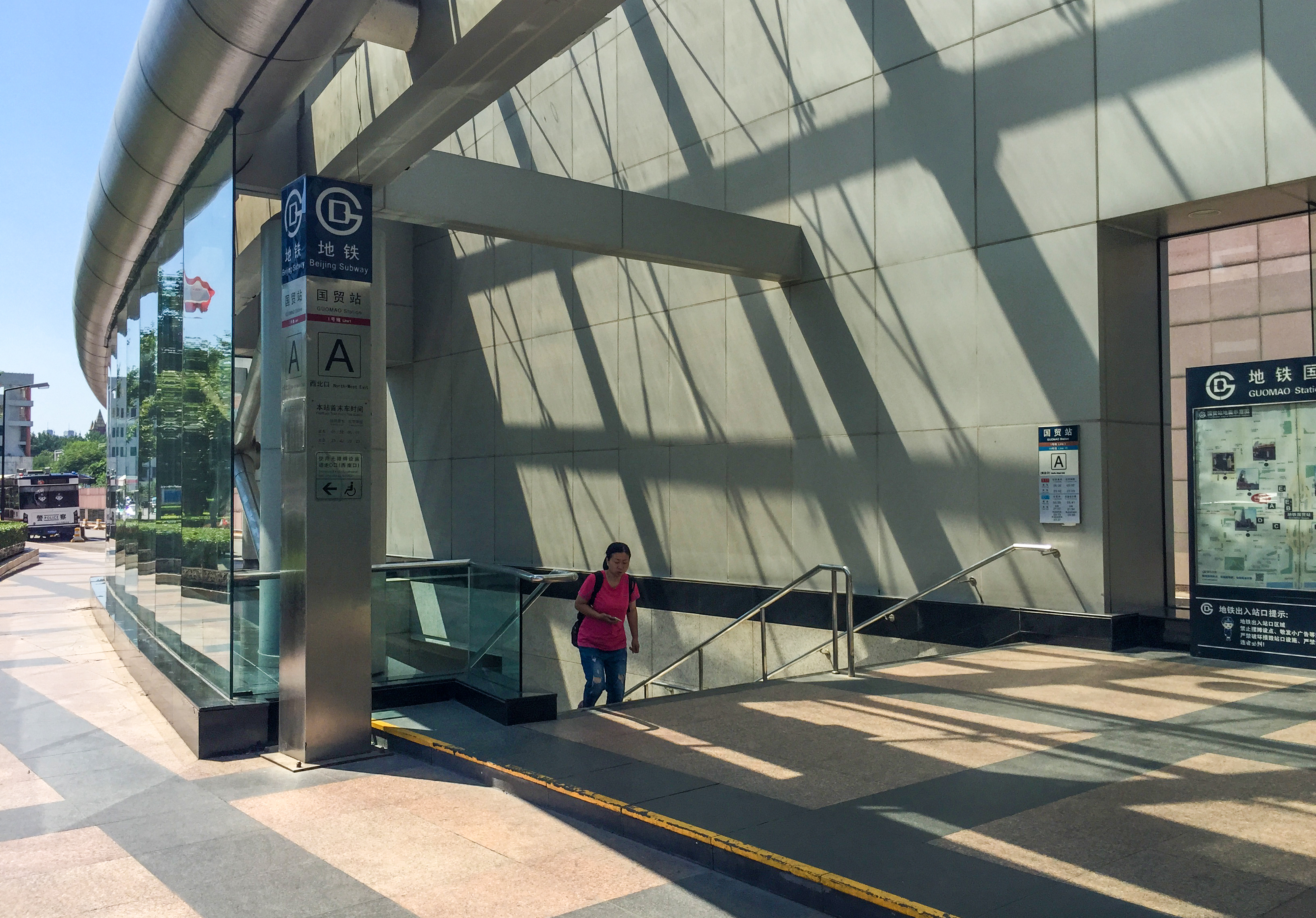 There isn't even an escalator to the ground?